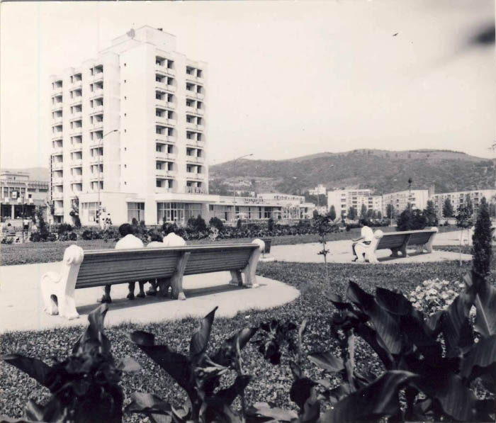 detail from Orșova, Romania in 1978